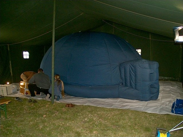 A small inflatable dome for a portable planetarium.